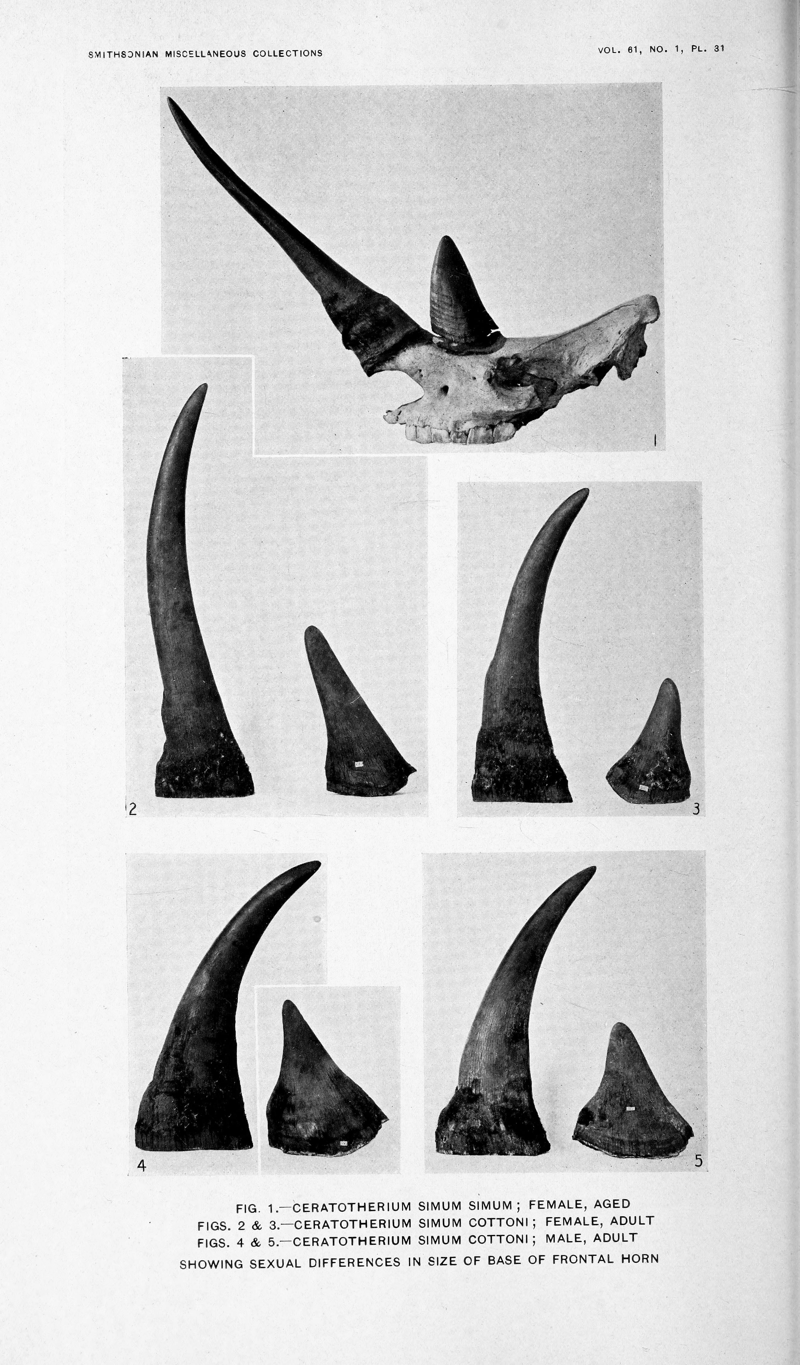 PLATE 31 Illustrating sexual differences in horns. Base of male horns greater in circumference than those of females, regardless of relative length. Fig. 1. Ceratotherium simum simum, female, old; from South Africa; exact locality not known ; specimen in the department of paleontology at the American Museum of National History. Type of abnormal projecting horn found only in some females; horn projecting forward at greatest possible angle, the tip when feeding coming in contact with the ground and showing a flat, worn surface on its outer face. Fig. 2. Ceratotherium simum cottoni, female, adult; from Rhino Camp, Lado Enclave ; shot by Kermit Roosevelt, January 21, 1910. No. 164594, U. S. National Museum. The longest horned specimen secured by the expedition and the only one having the forward pitch and wear on outer surface of tip as in fig. 1 ; length 29^ inches. Fig. 3. Ceratotherium simum cottoni, female, immature ; from Rhino Camp, Lado Enclave ; shot by Col. Theodore Roosevelt, January 10, 1910. No. 164587, U. S. National Museum. Fig. 4. Ceratotherium simum cottoni, male, immature ; from Rhino Camp, Lado Enclave; shot by Col. Theodore Roosevelt, January 15, 1910. No. 164635, U. S. National Museum. Longest male horn secured by the expedition ; length 24^ inches. Fig. 5. Ceratotherium simum cottoni, male, adult; from Rhino Camp, Lado Enclave ; shot by Kermit Roosevelt, January 20, 1910. No. 164593, U. S. National Museum.